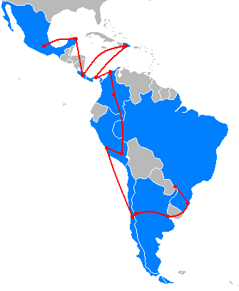 Route map of the first season of The Amazing Race en Discovery Channel.